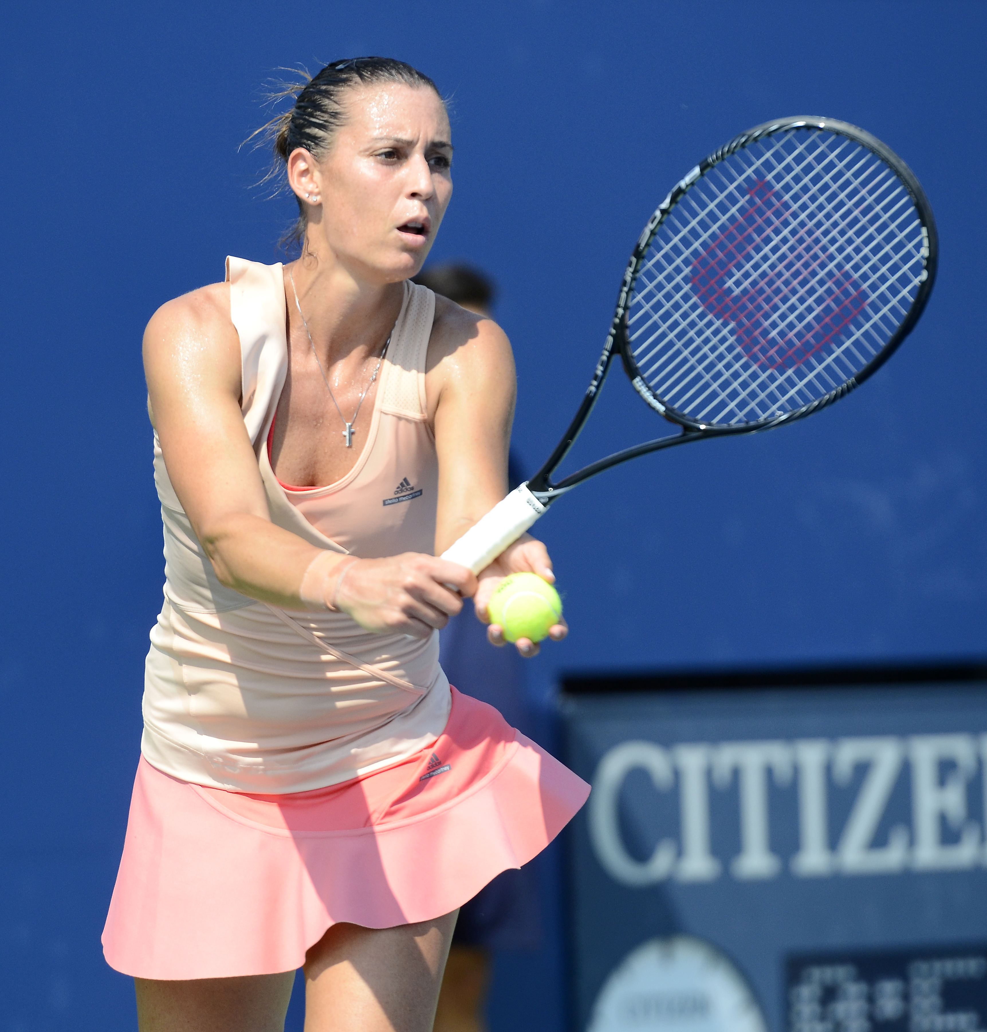 August 26, 2014 Queens, NY Flavia Pennetta (ITA) def. Julia Goerges (GER)